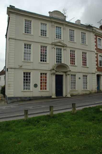 Home of Mikael Pederson This Georgian house was the home of bicycle inventor Mikael Pederson from 1897 to 1918.